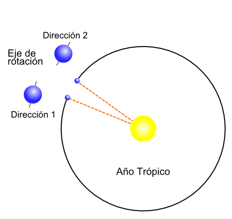 Tropical year